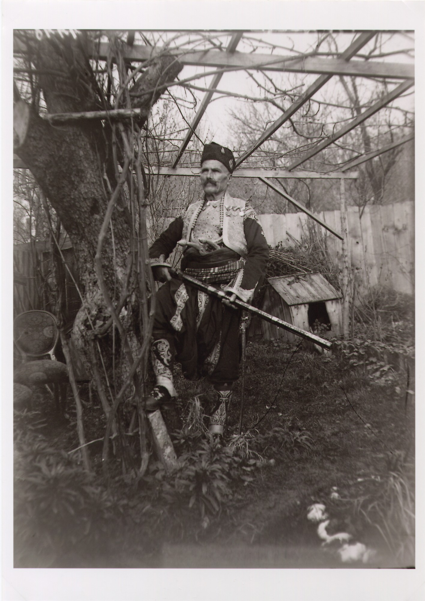 Full-length shot of a Serbian man wearing richly embroidered clothes and a black hat. He is carrying guns in his belt and he is decorated with medals. He is posing with a rifle in his hands. In the background: chairs and a dog kennel. Golub Babić (1824-1910) was a Serbian chieftain and one of the most important commanders during the Herzegovina Uprising (1875-1878). Archived from: The National Museum of Bosnia and Herzegovina, Inv. No.: IV Narodne igre, narodni običaji, nošnje iz Hercegovine, muslimanska, srpska, hrvatska, jevrejska: 444